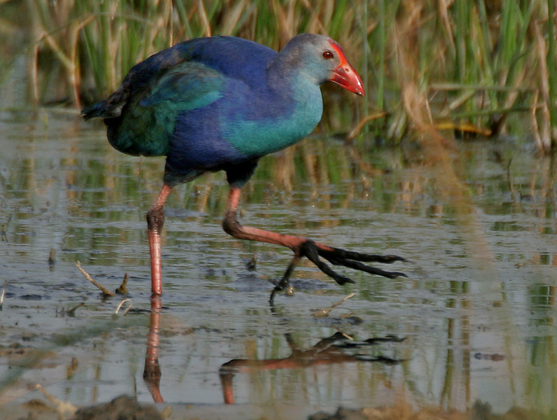 Purple Swamphen Porphyrio porphyrio at/ near Hodal, Faridabad, Haryana, India.